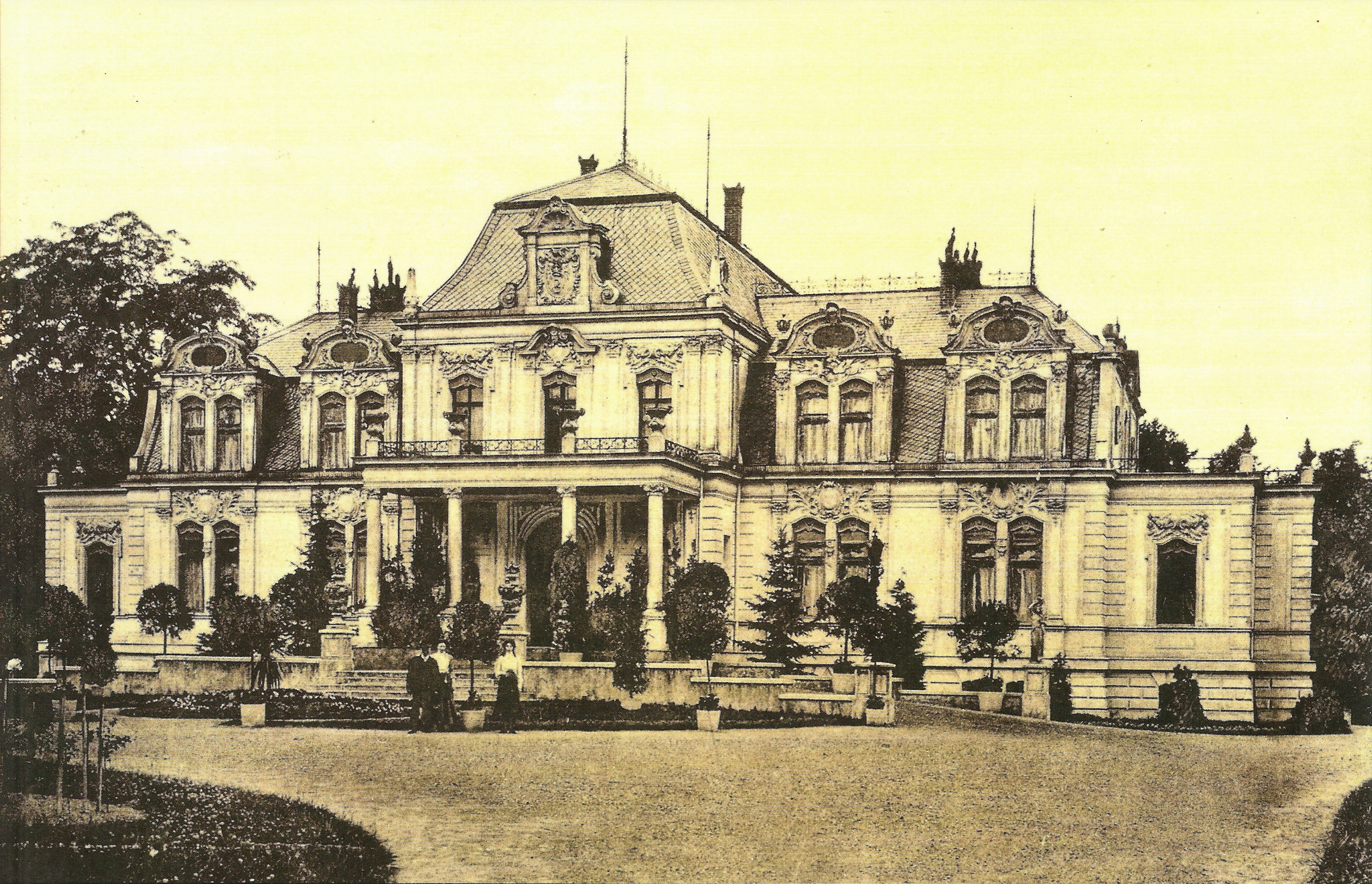 Palace in Błociszewo in Śrem County, Poland, in 1912